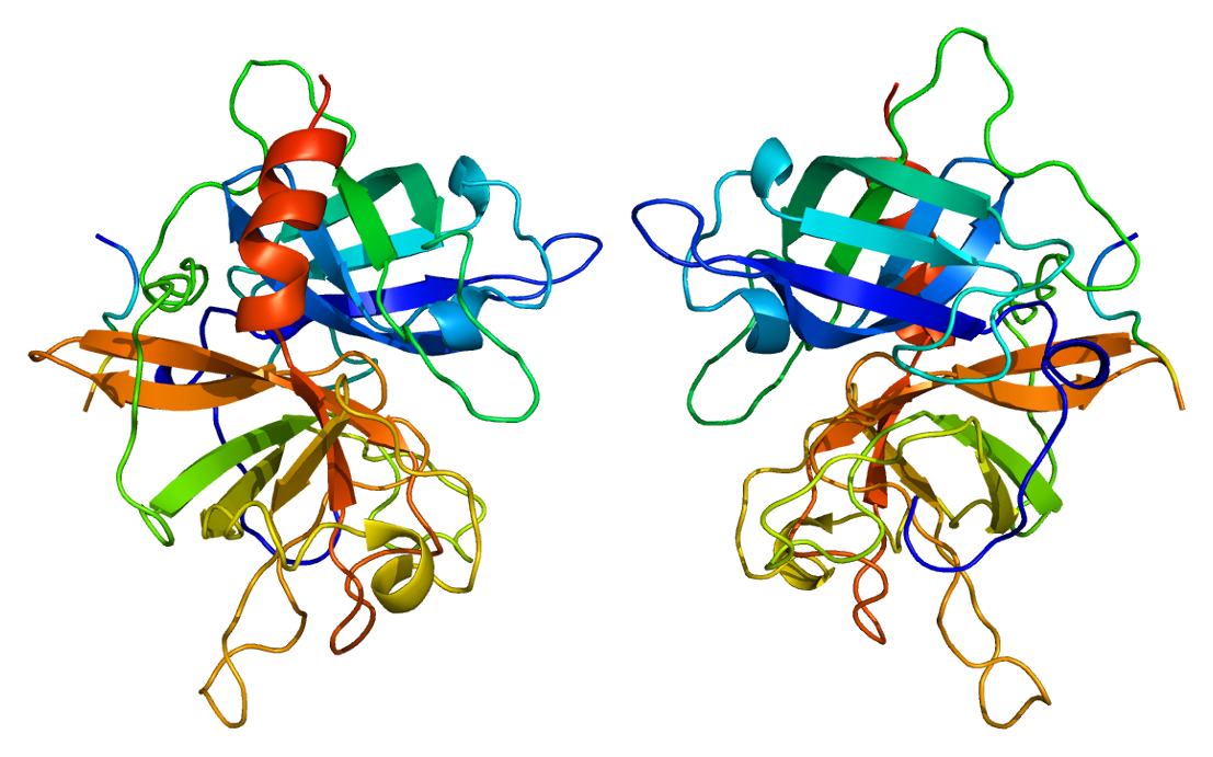 Structure of the PLAT protein. Based on PyMOL rendering of PDB 1a5h.